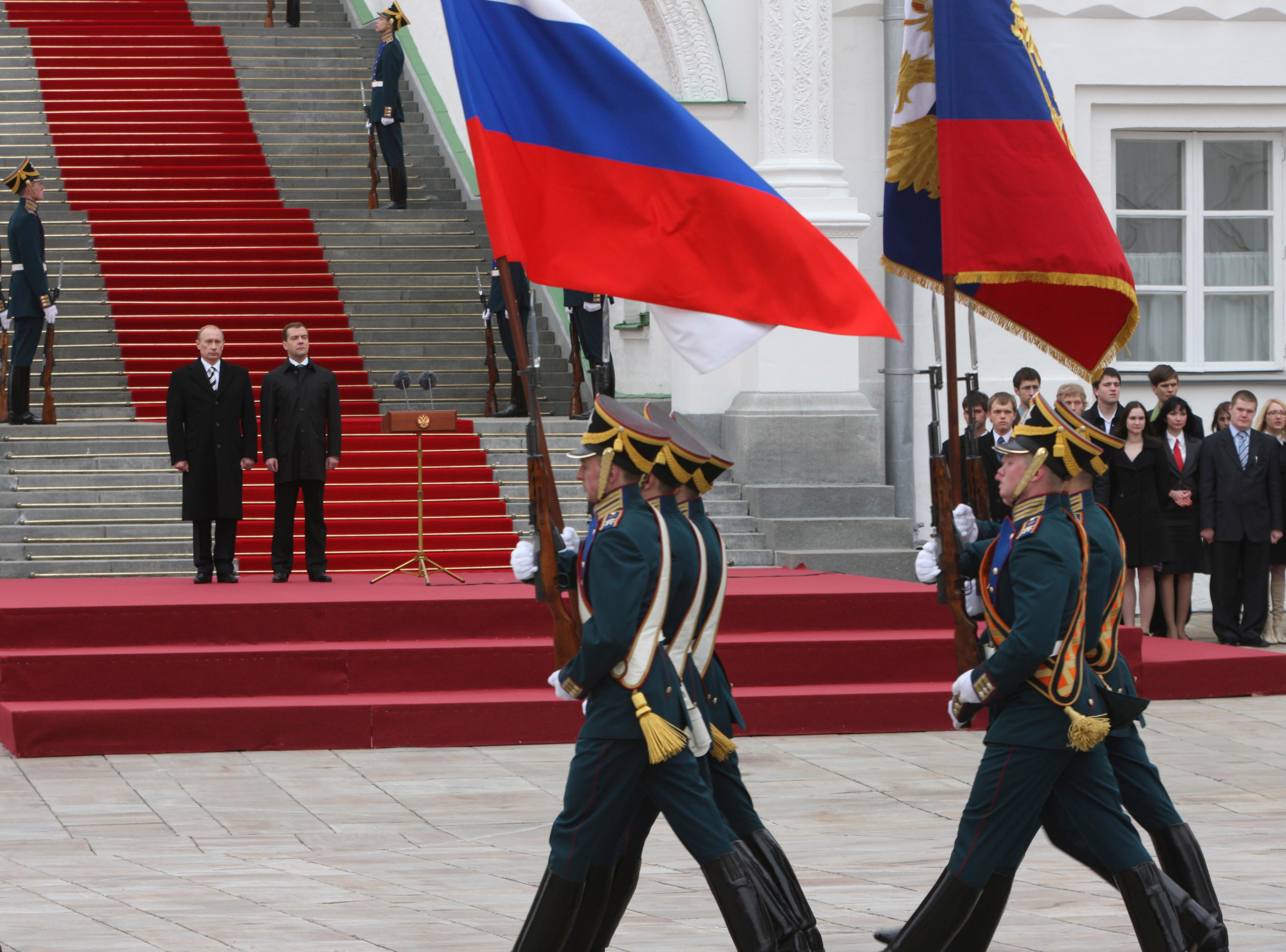 CATHEDRAL SQUARE, THE KREMLIN, MOSCOW. Inauguration of Dmitry Medvedev as President of Russia. President of Russia Dmitry Medvedev and Vladimir Putin reviewed the troops of the Presidential Regiment and congratulated them on the 72nd anniversary of the regiment’s founding.